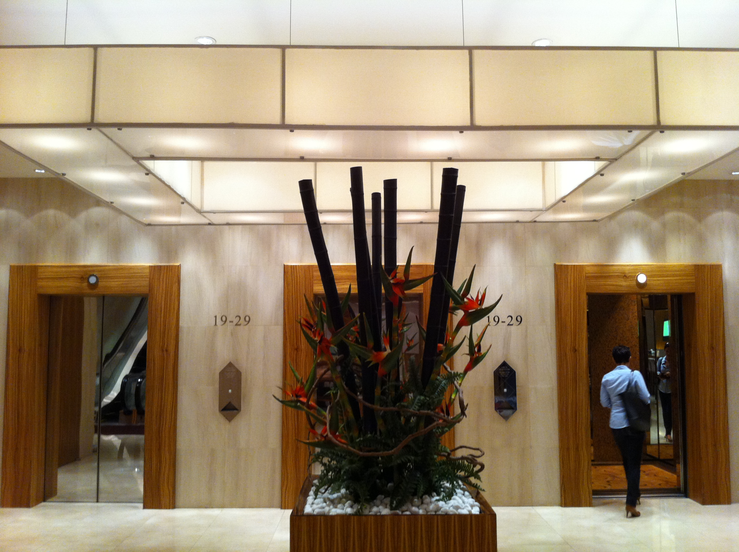 灣仔 告士打道, Gloucester Road, Wan Chai, Hong Kong